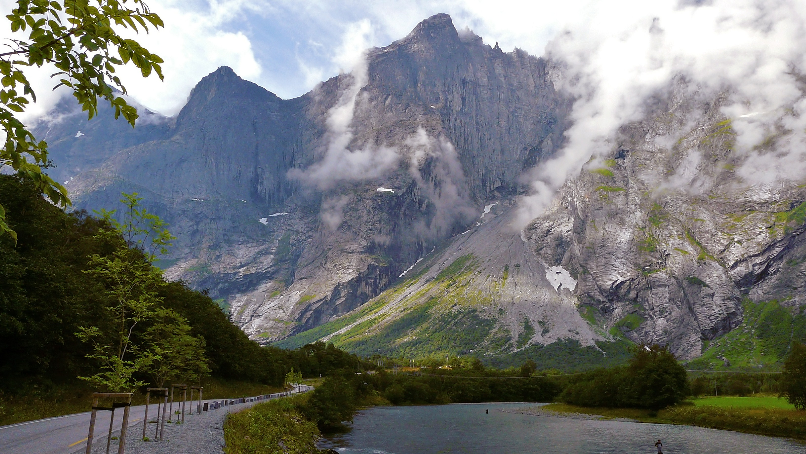 A view to Romsdalen from Vadstranda by the Rauma river in 2008 August. Trollveggen behind.